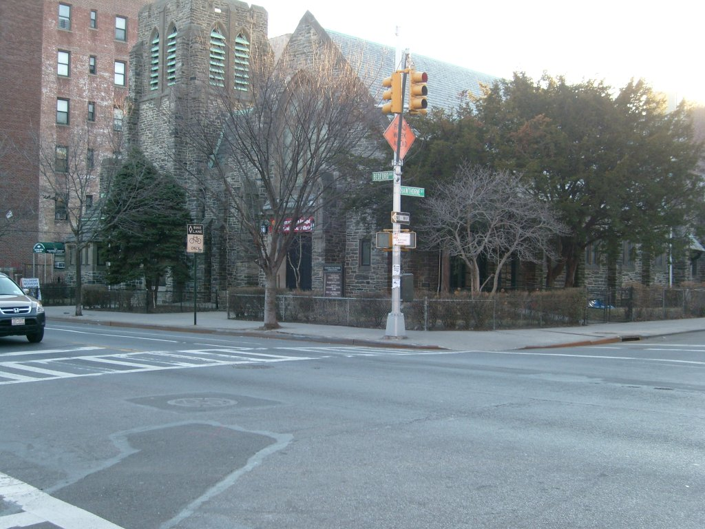 Evangel UCC at Bedford Avenue and Hawthorne Street in Lefferts Gardens, Brooklyn